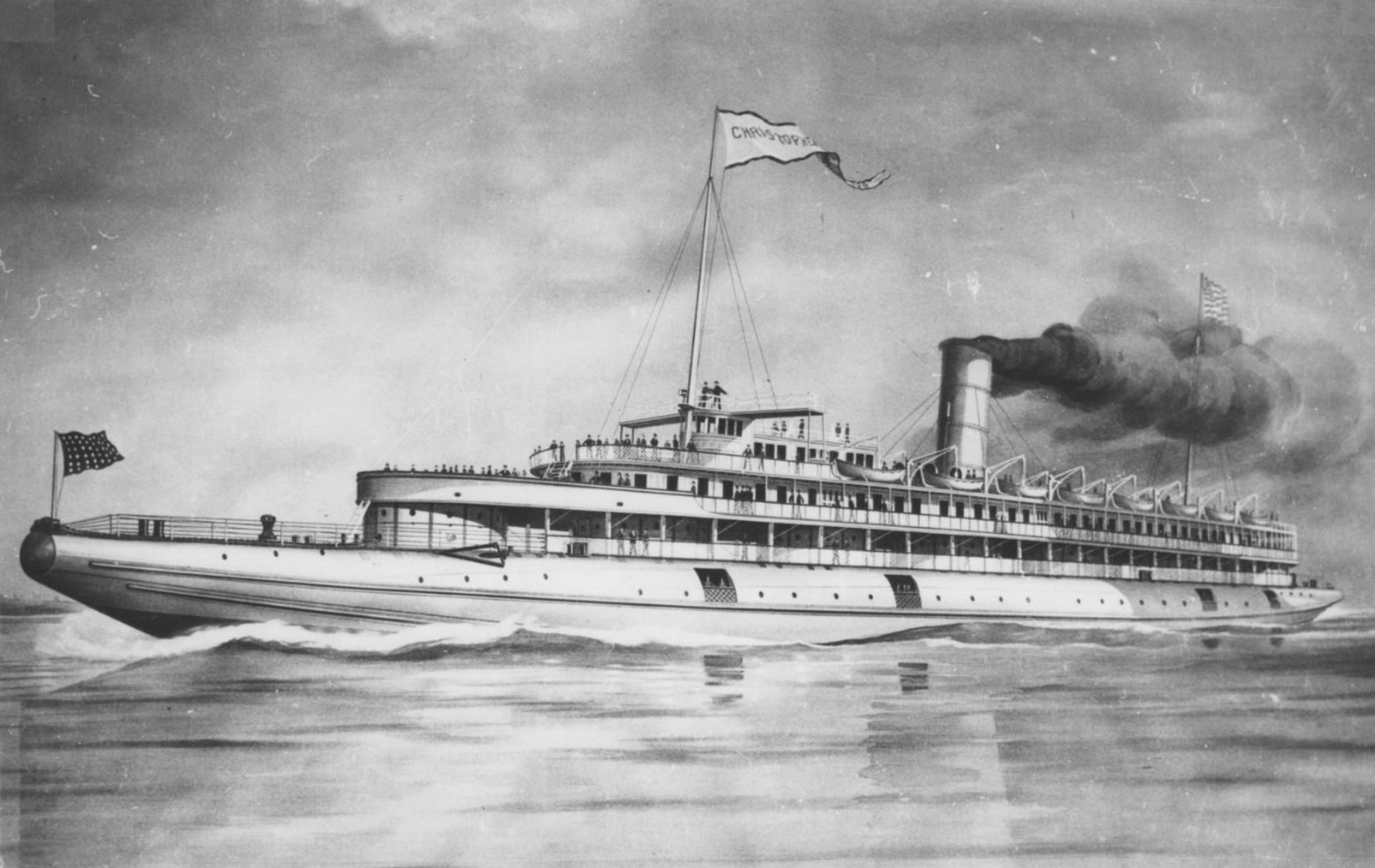 The S.S. Christopher Columbus was a whaleback excursion liner designed by Alexander McDougall and built in 1892-1893 in Superior, Wisconsin by American Steel Barge Company for service to ferry passengers to and from the World's Columbian Exposition, and later placed in general and excursion service to various ports around the Great Lakes. This image is a painting by Great Lakes marine artist Howard Sprague showing the steam ship as she appeared (in white livery) in 1893.